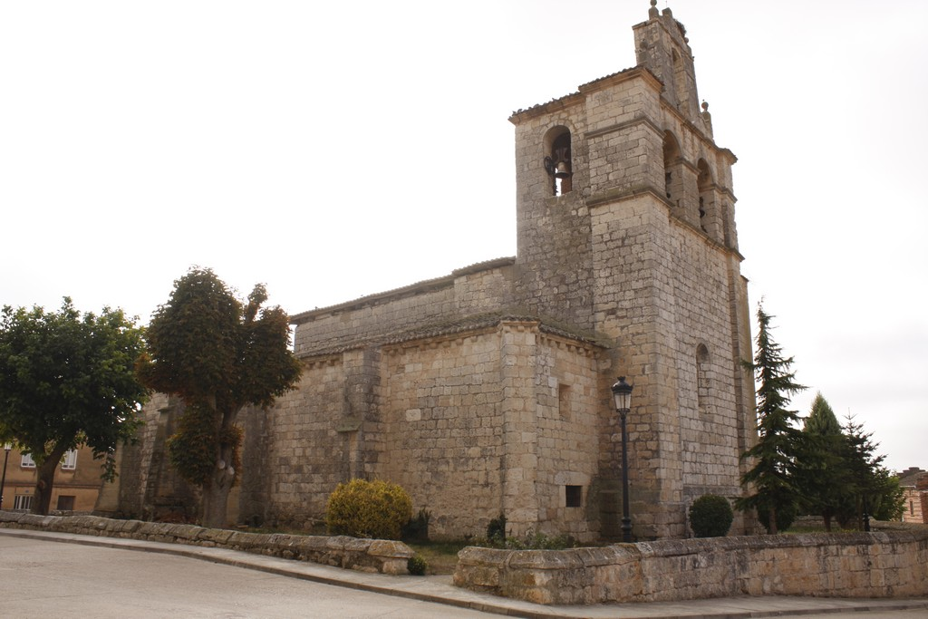 Santa María la Mayor church